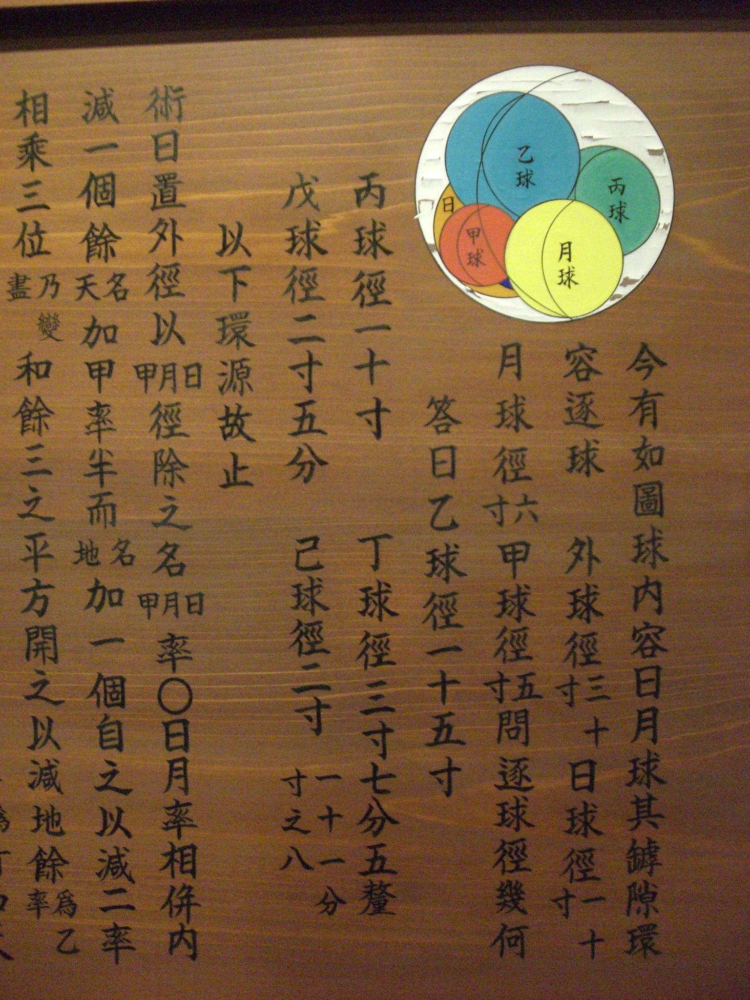 Sangaku of Soddy' hexlet at Hôtoku museum in Samukawa Shrine